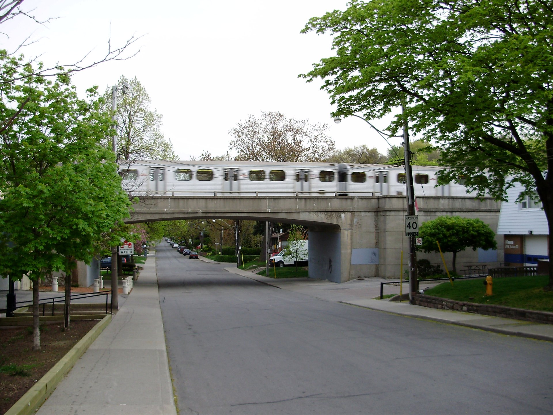 A subway train crosses above Clendennan Avenue, a residential road in the Toronto neighbourhood of High Park North.